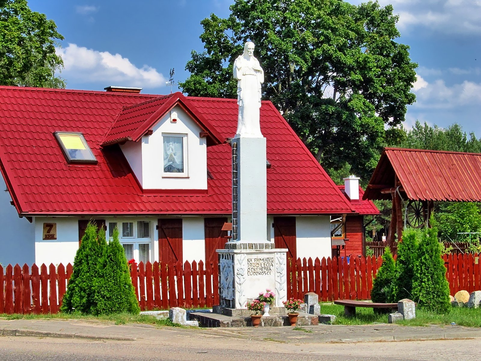 Borsk, Redemption of the Nation Monument